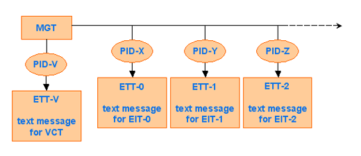 ETT Table Sructure